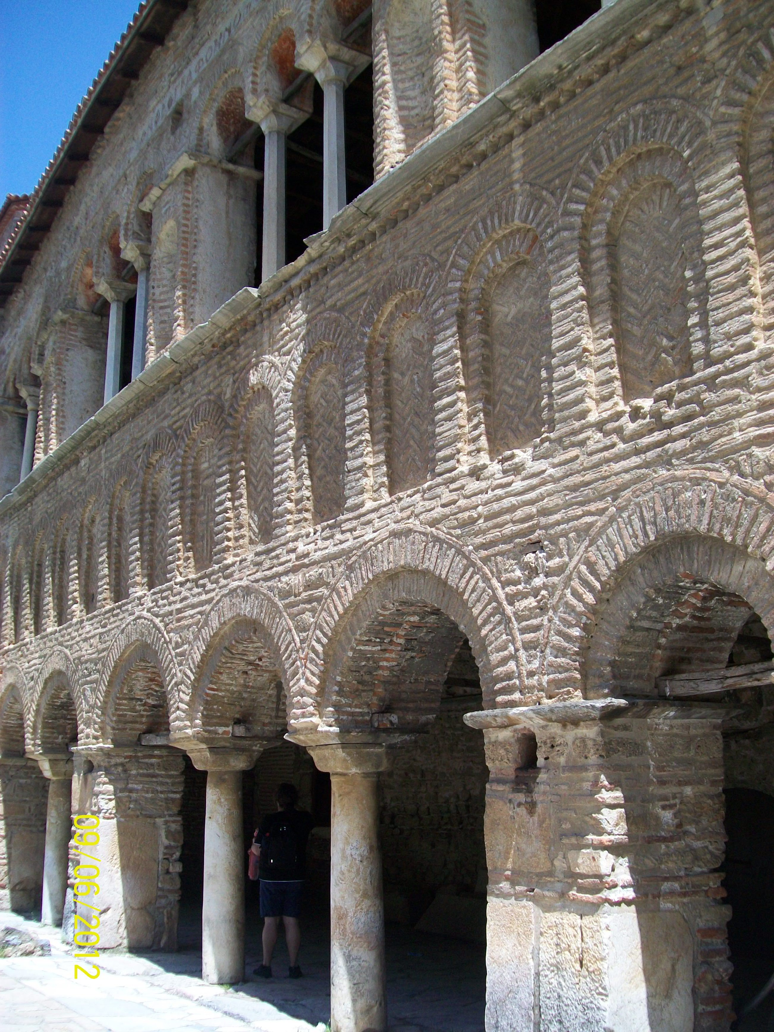 Hagia Sophia located in the old part of the town committed to Christ as Divine Wisdom ie Ss. Sofia, the courtyard colonnade and an important place for cultural events like concerts and plays, remains of the old amphitheater especially given historical note